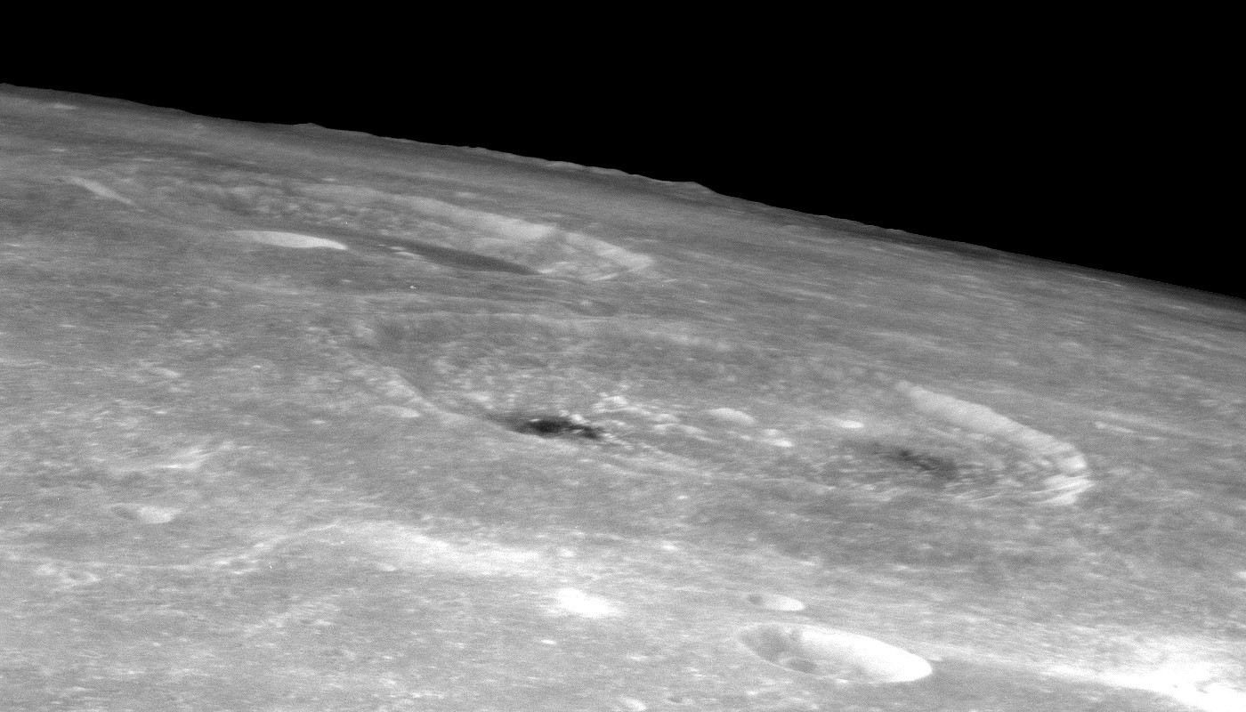 Oblique view of Atlas crater (lower right) and Hercules crater (upper left), on the moon. Taken by Apollo 16 panoramic camera during Trans-Earth Injection. Brightness and contrast adjusted in GIMP.